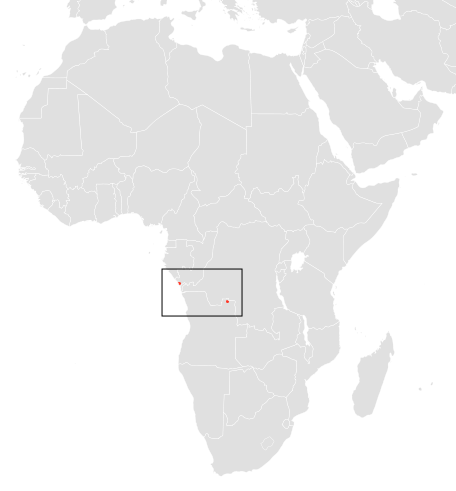 Distribution of Epomophorus grandis